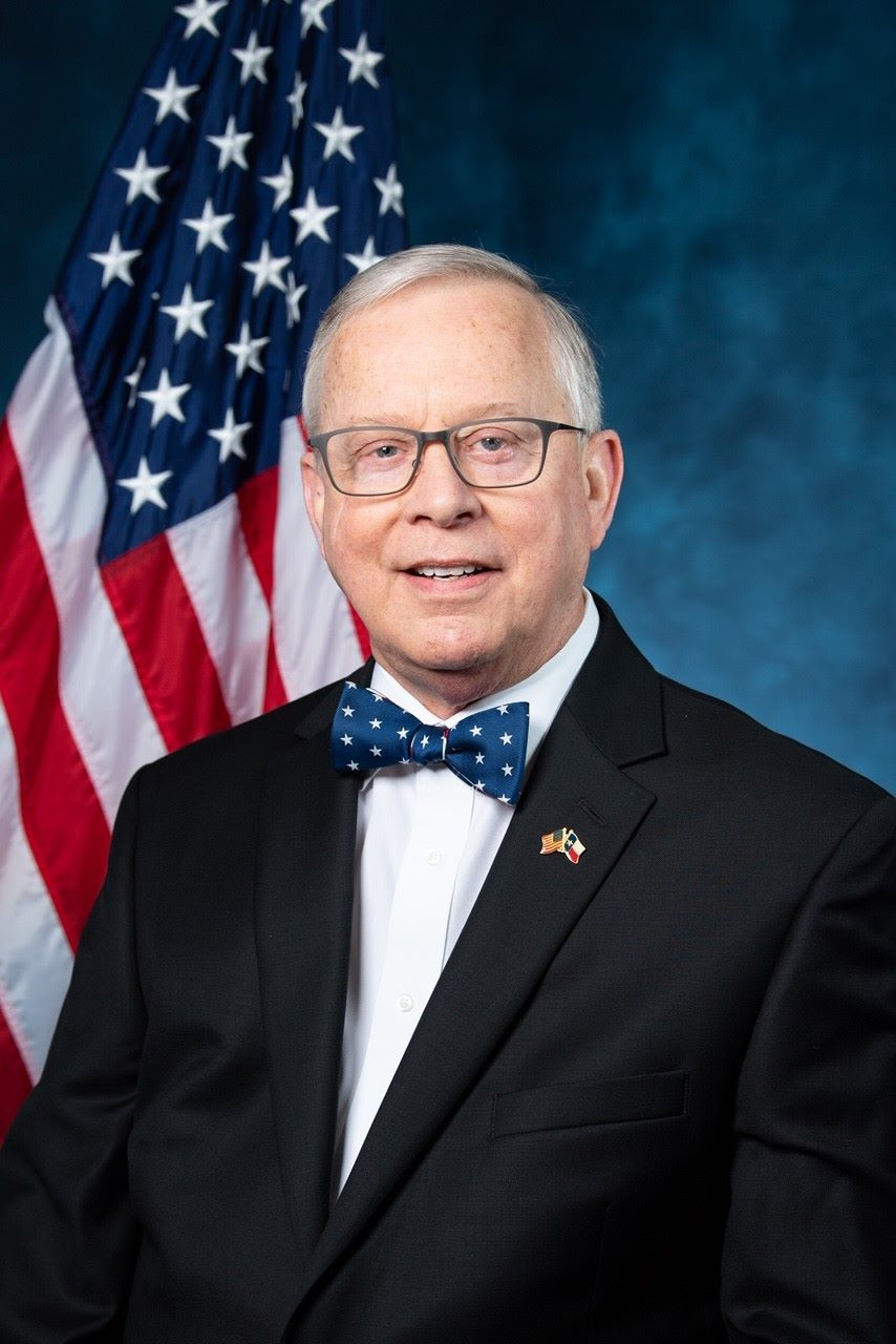 The official headshot of Rep. Ron Wright (R-TX)